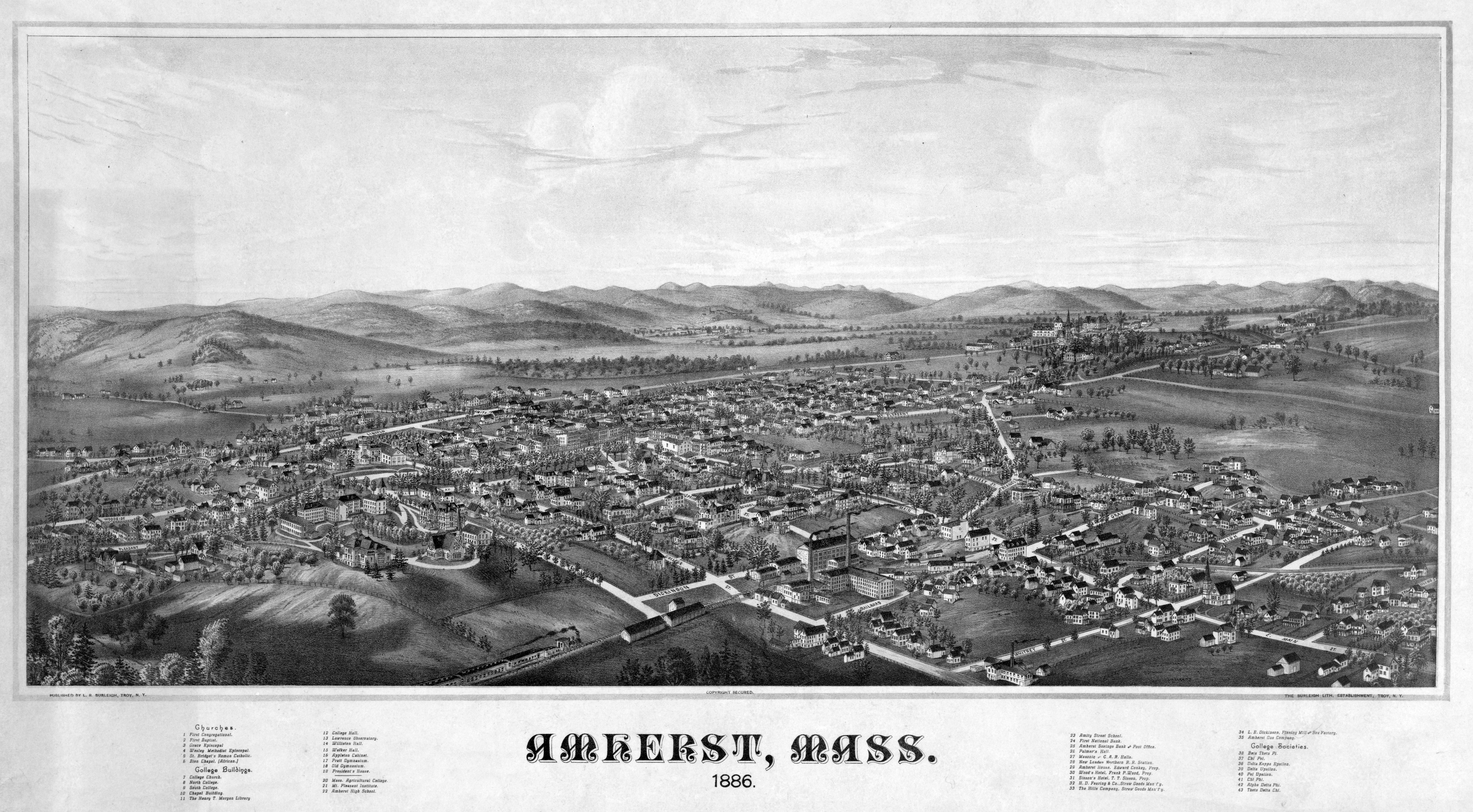 Vista of Amherst, Massachusetts, USA, as of 1886. This image was published circa 1887 March 23.